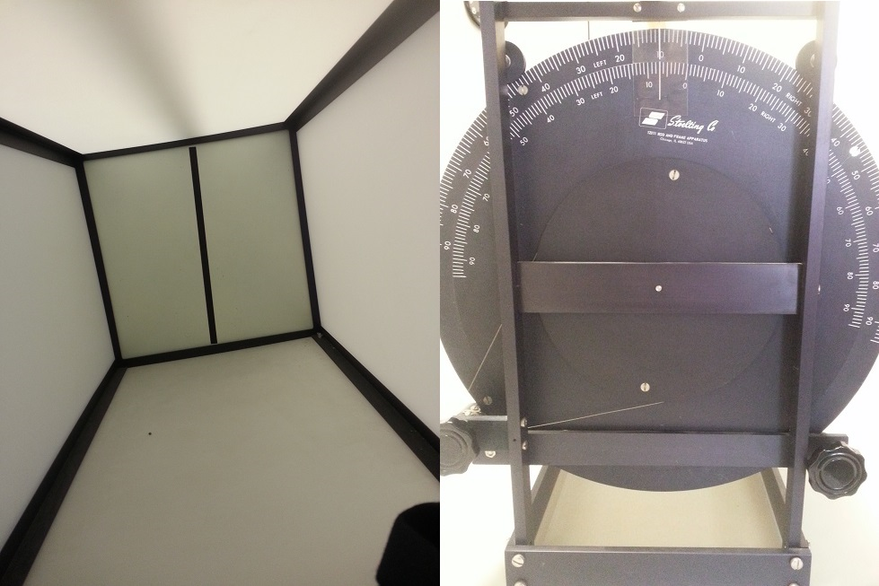 An image showing a 10 degree frame angle and a 7 degree rod angle. Note how the rod appears vertically oriented.